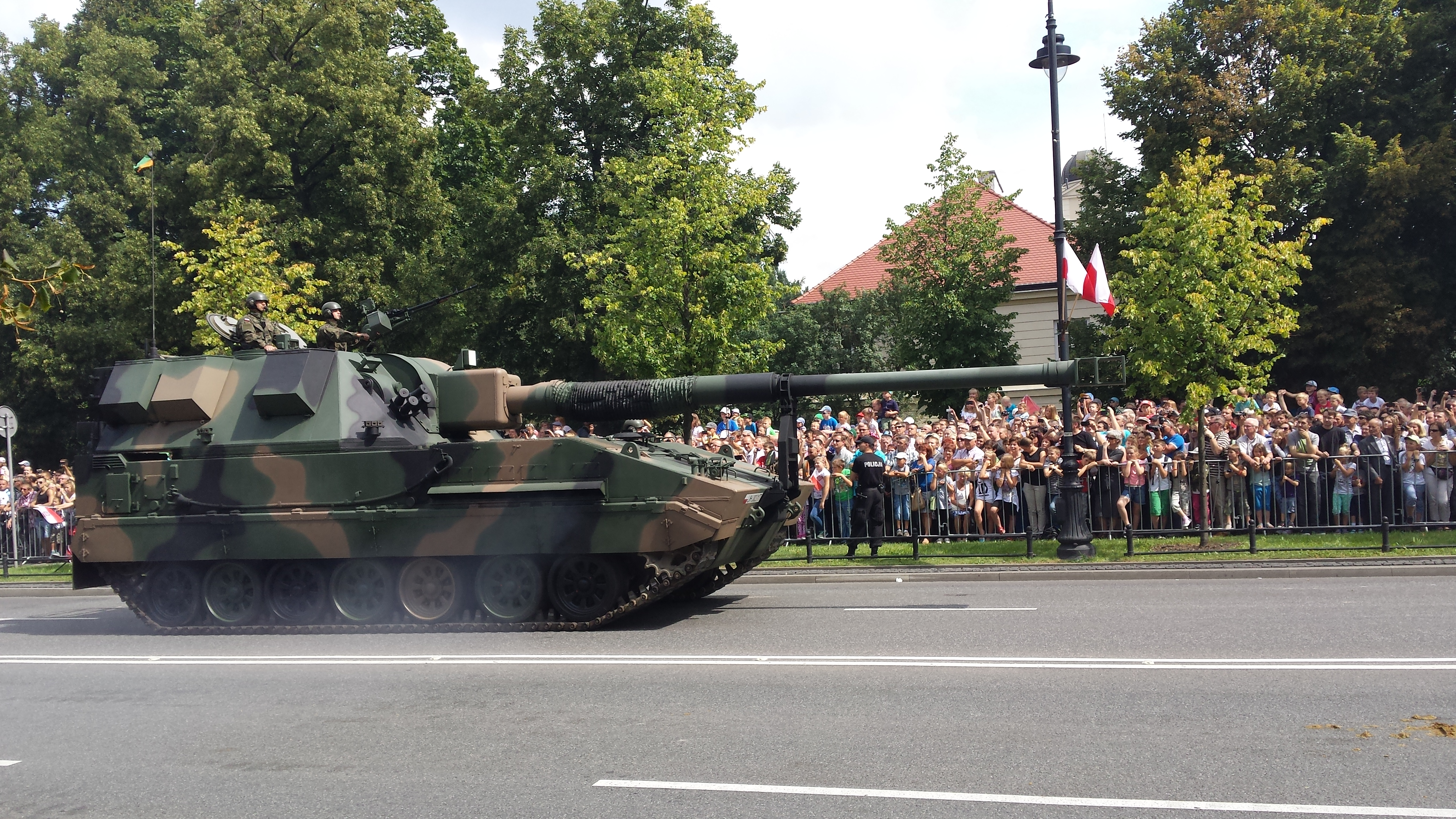 Krab howitzer in Warsaw